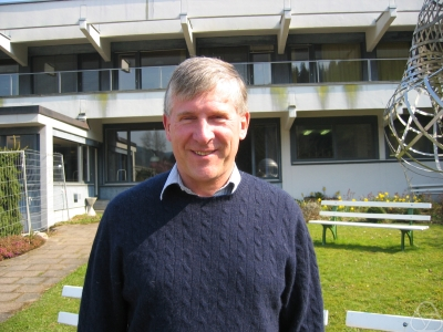 Paul Seymour, graph theorist, at Oberwolfach